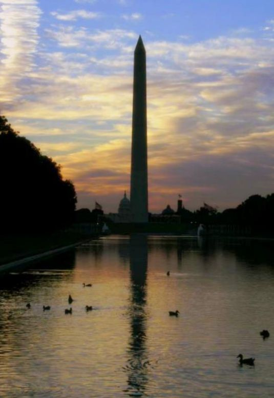 Looking east towards the Washington Monument, National World War 2 Memorial, Capitol Hill, and Smithsonian Castle. The Reflecting Pool is in the foreground. Picture taken from the Lincoln Memorial.